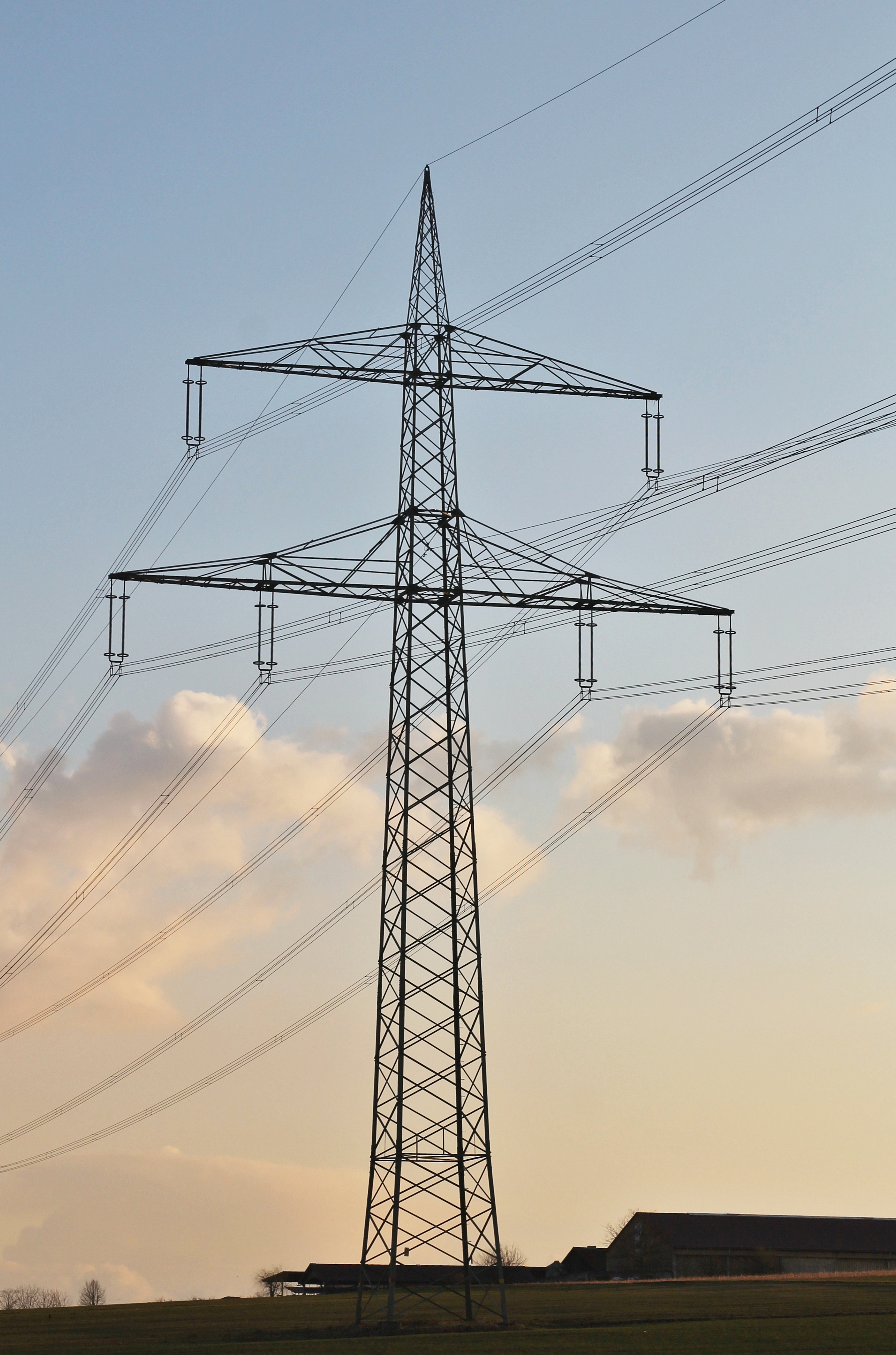 Suspension tower of powerline Hoheneck–Bürstadt near Geisingen